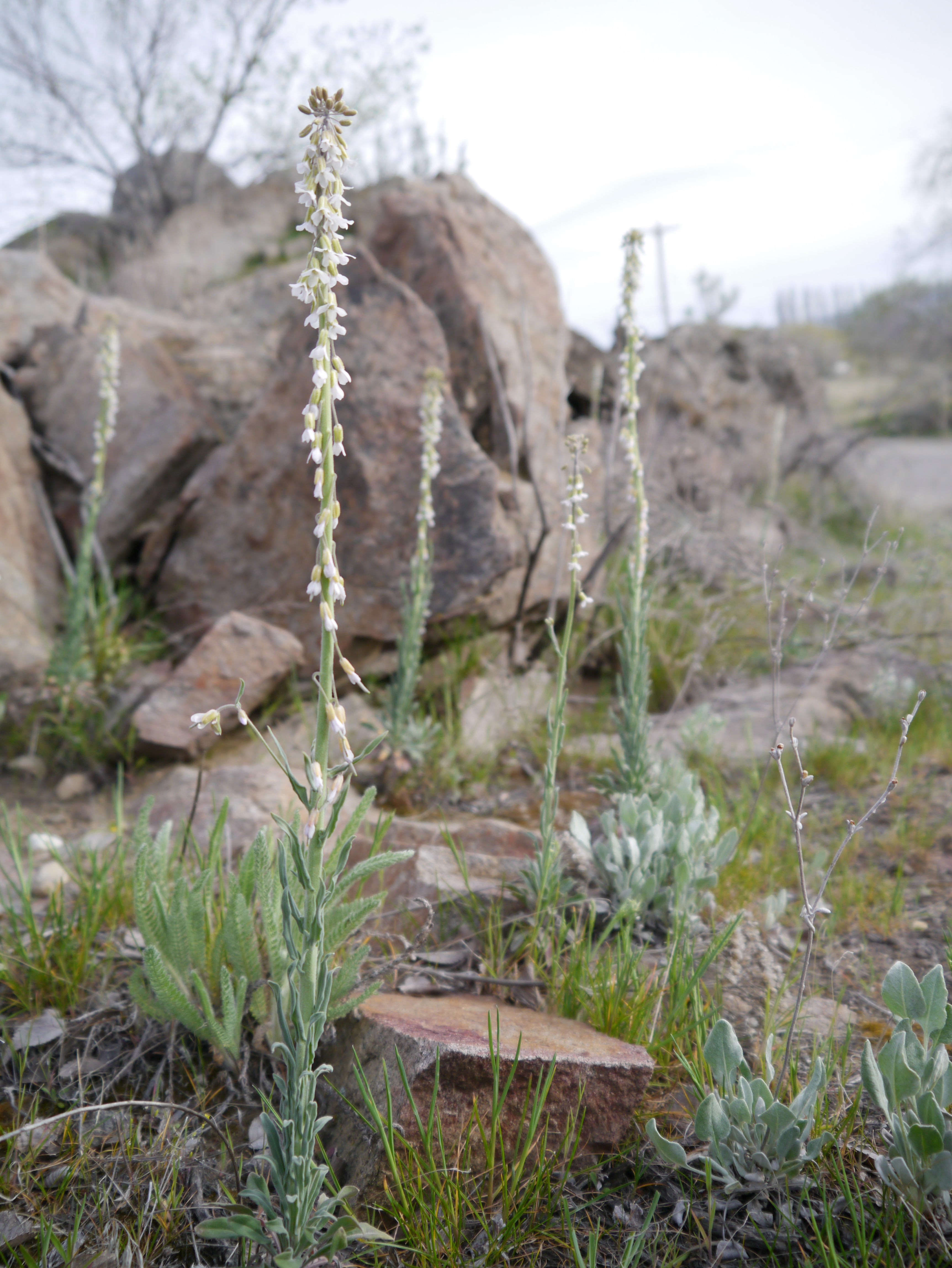 Boechera retrofracta in flower in East Wenatchee, Douglas County Washington